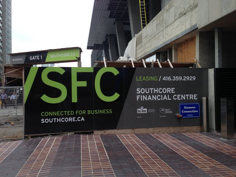 The SouthCore Financial Centre building is currently under construction.